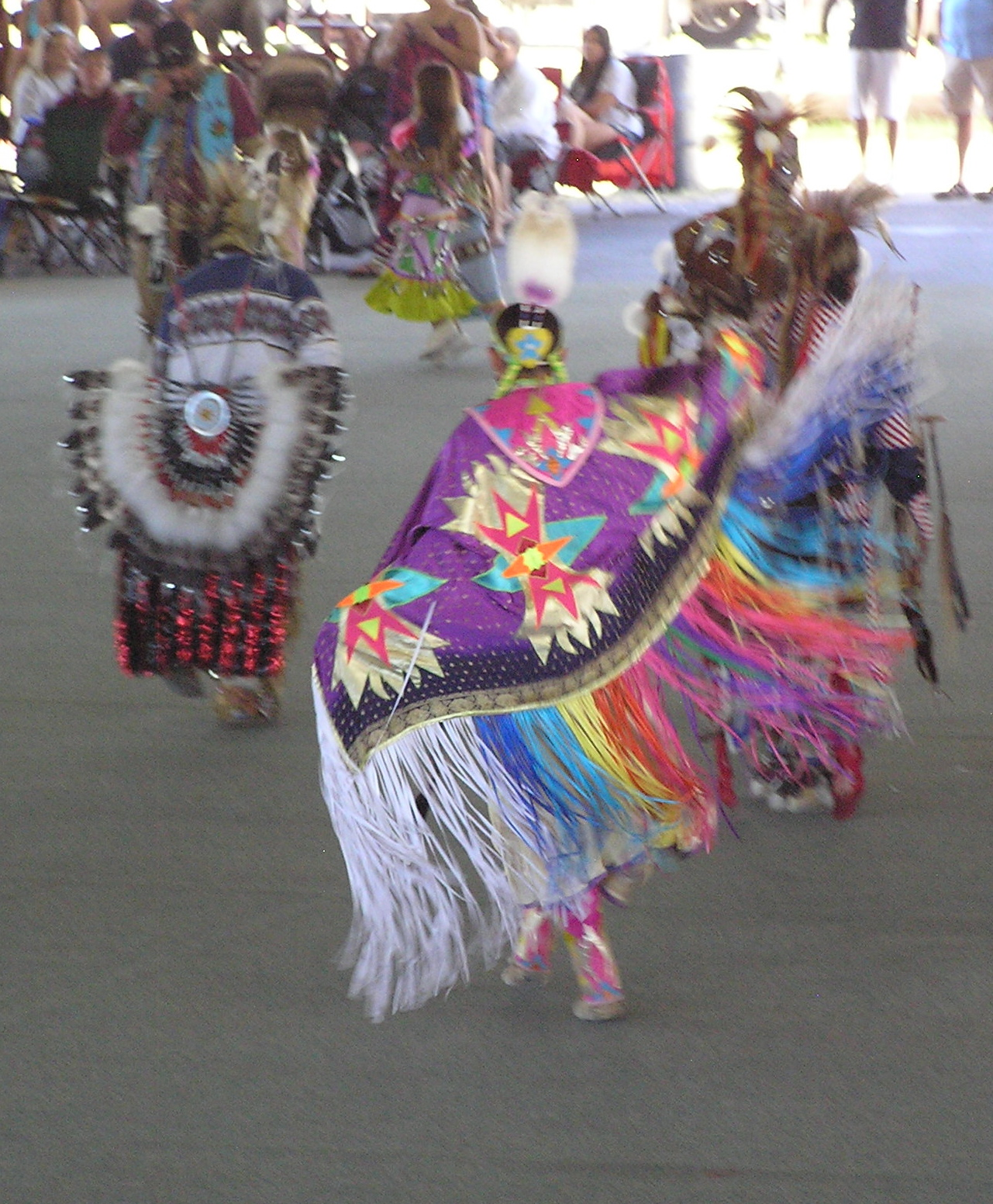 Native American Dancers at 2012 Arlee Celebration Powwow, Arlee, MT